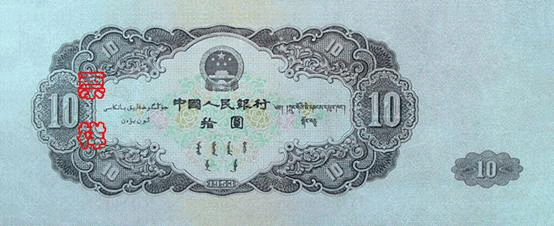 Back of second series 10 yuan renminbi